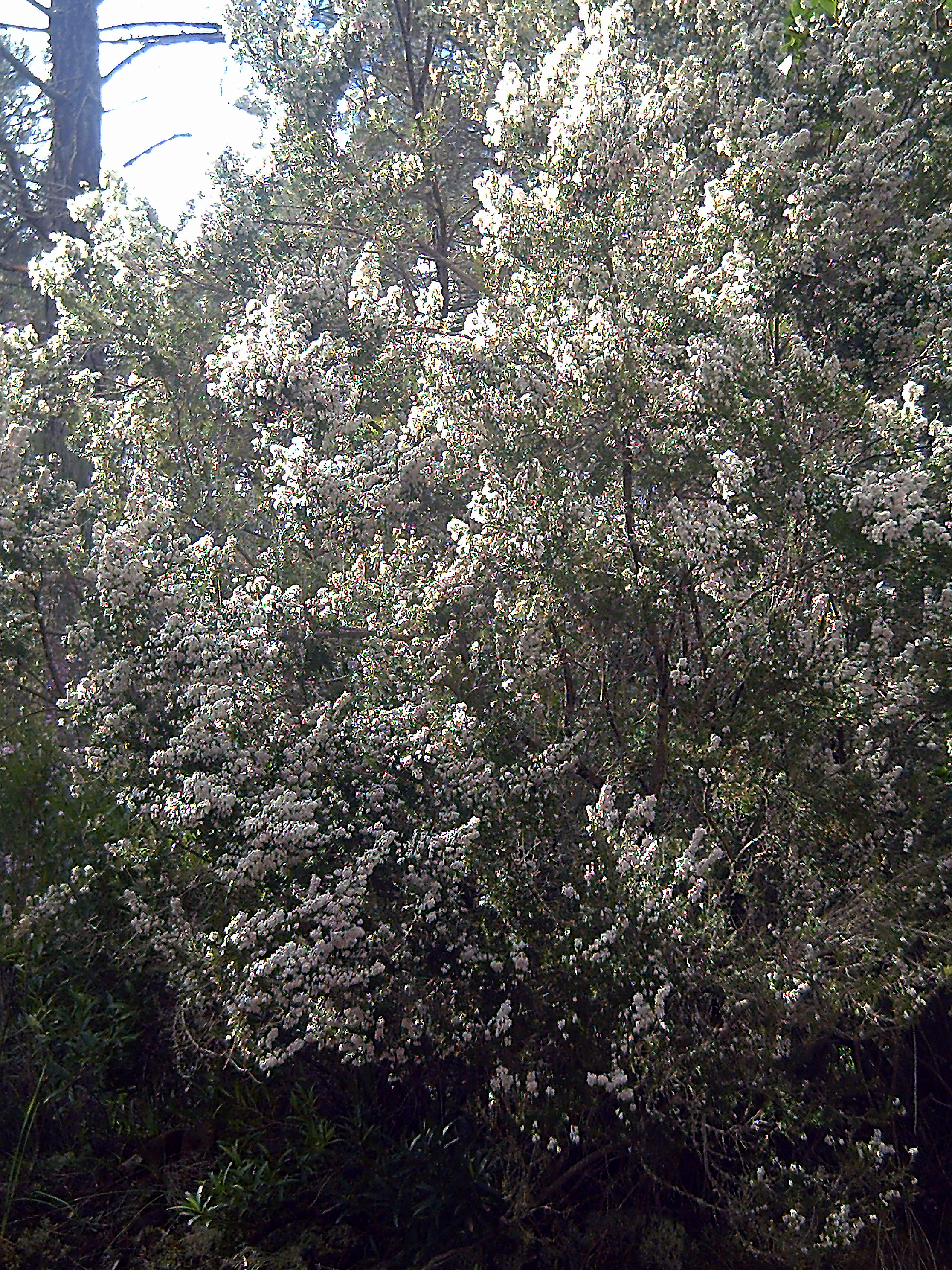 Erica arborea Habitus, Sierra Madrona, Spain